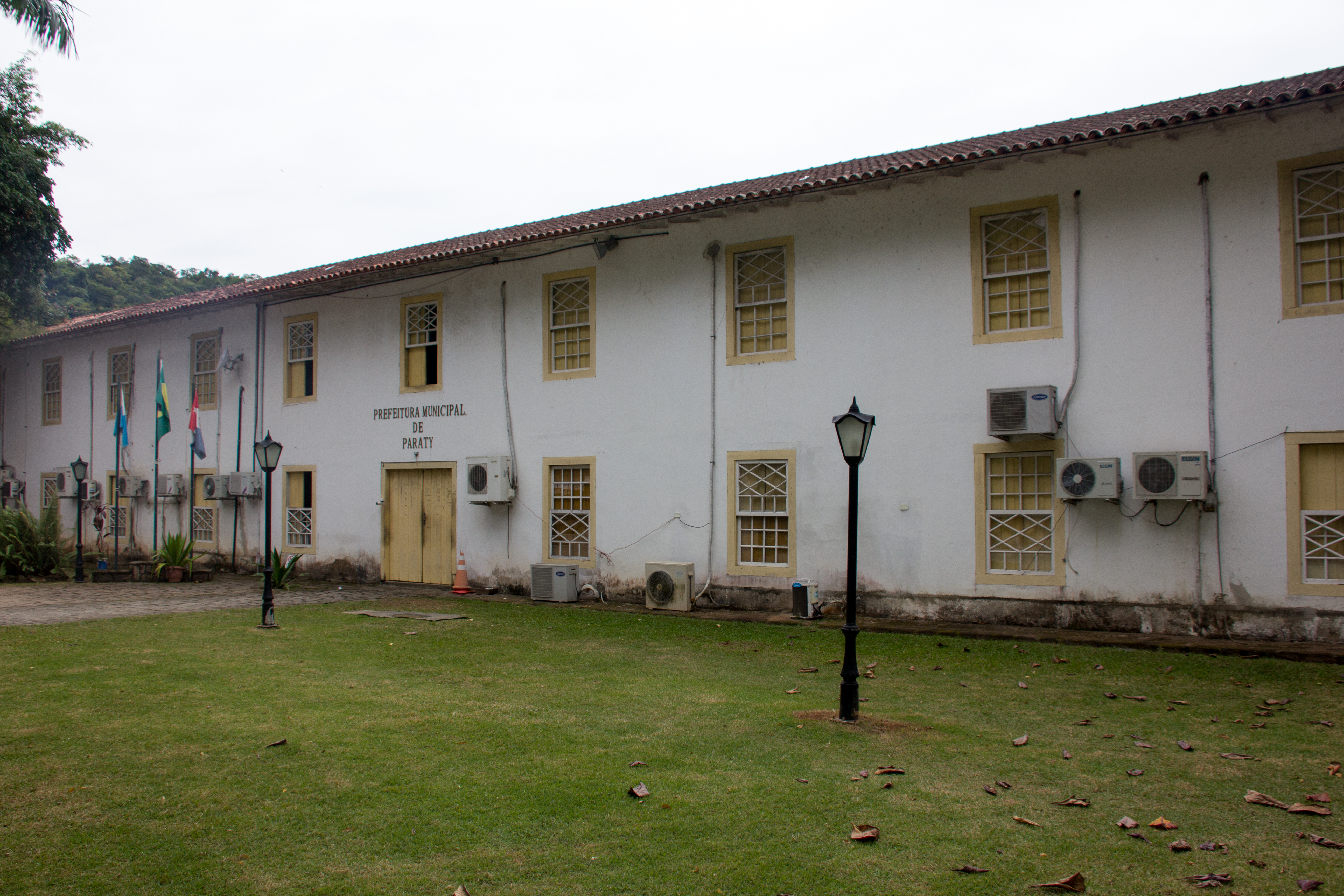 Paraty, State of Rio de Janeiro, Brazil